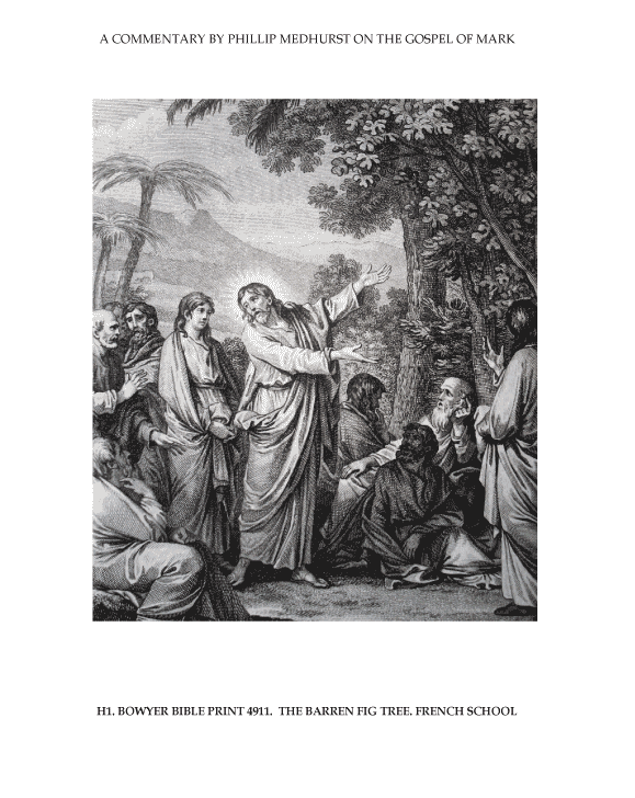 The barren fig tree. French School. In the Bowyer Bible in Bolton Museum, England. Print 4911. From “An Illustrated Commentary on the Gospel of Mark” by Phillip Medhurst. Section H. parables of the kingdom. Mark 4:1-12, 26-32, 11:12-14, 19-26.